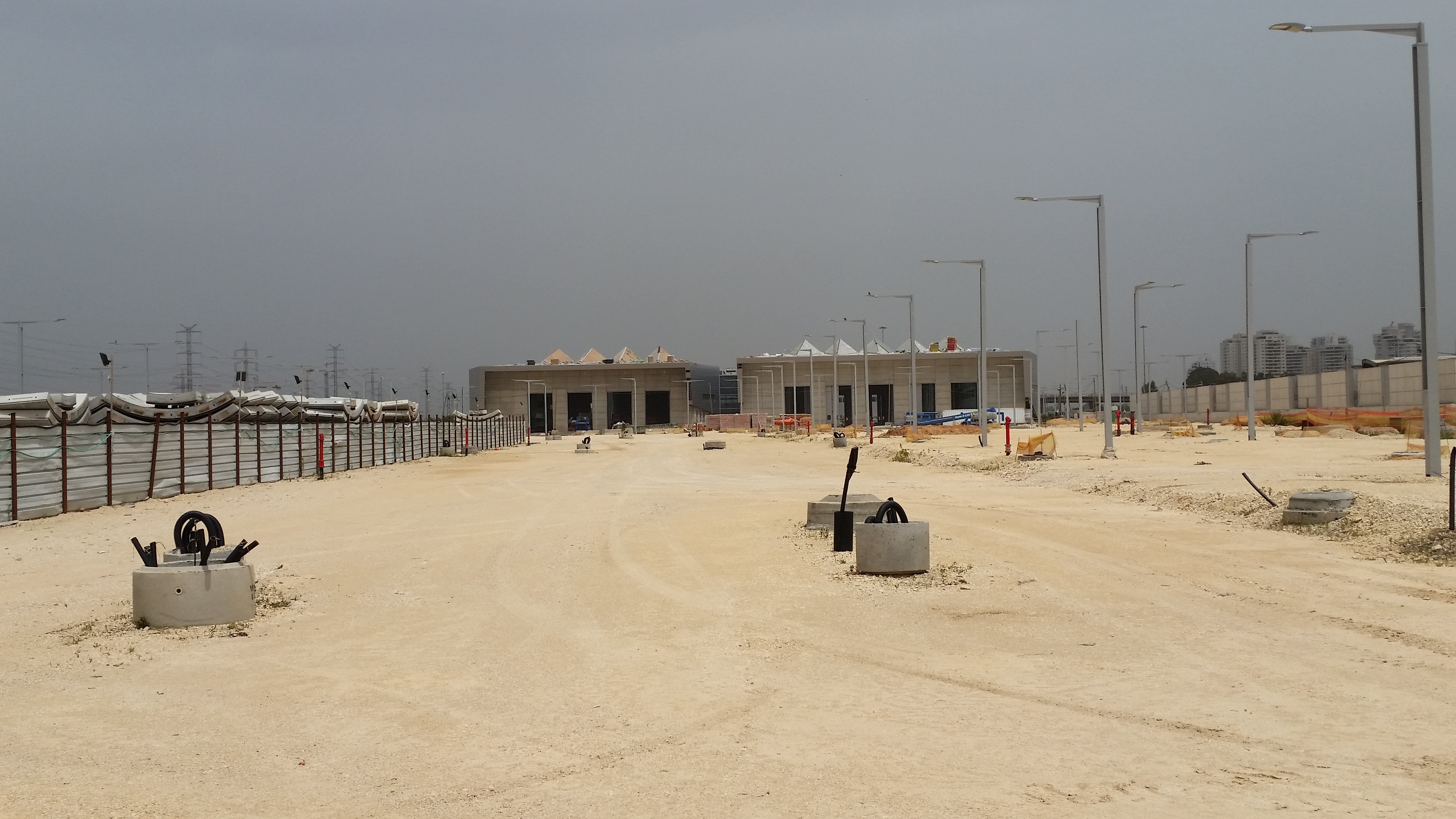 Tel Aviv Light Rail Red Line Kiryat Arie Depot